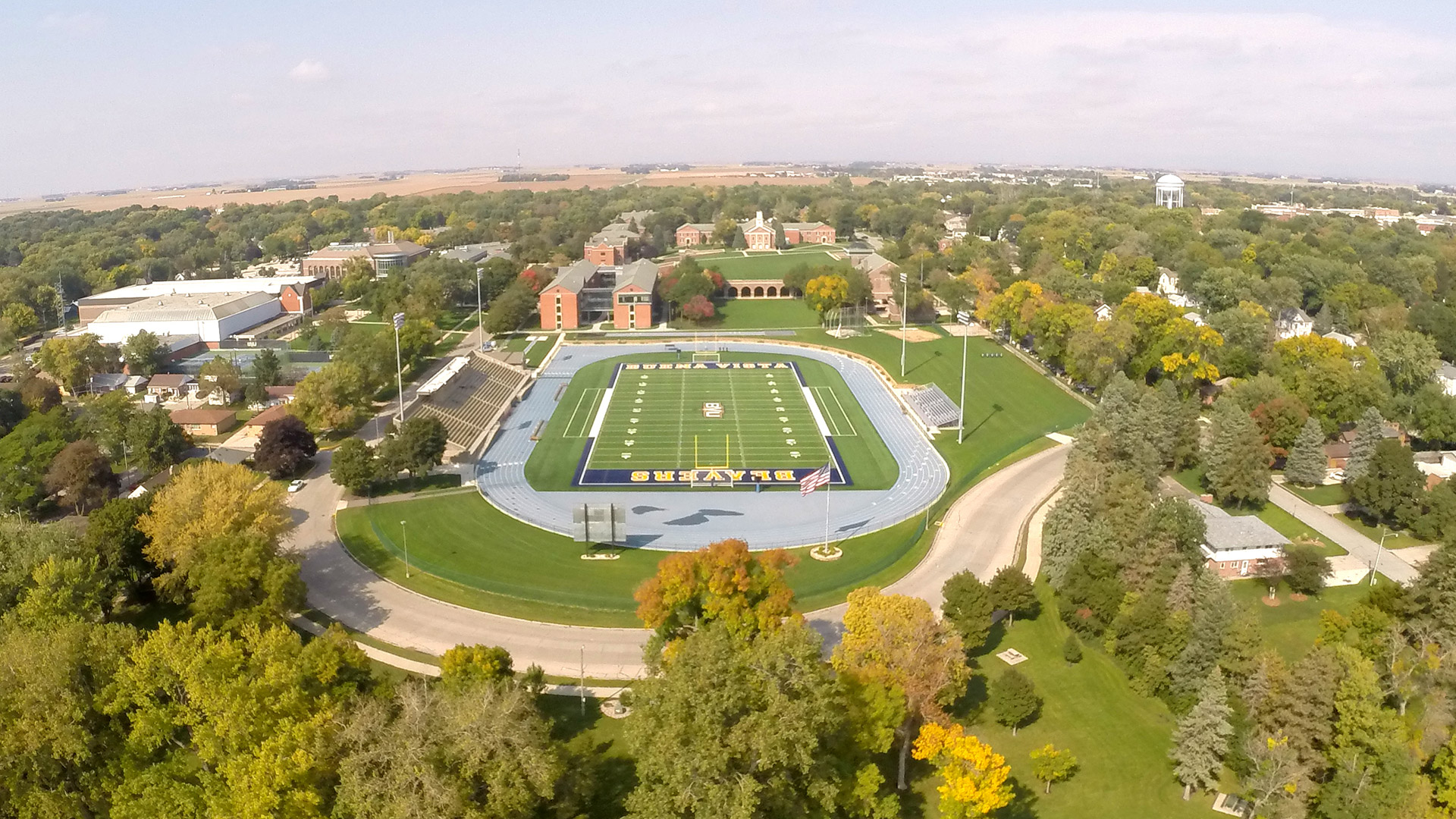 An aerial photo of the Buena Vista University campus in Storm Lake, Iowa.